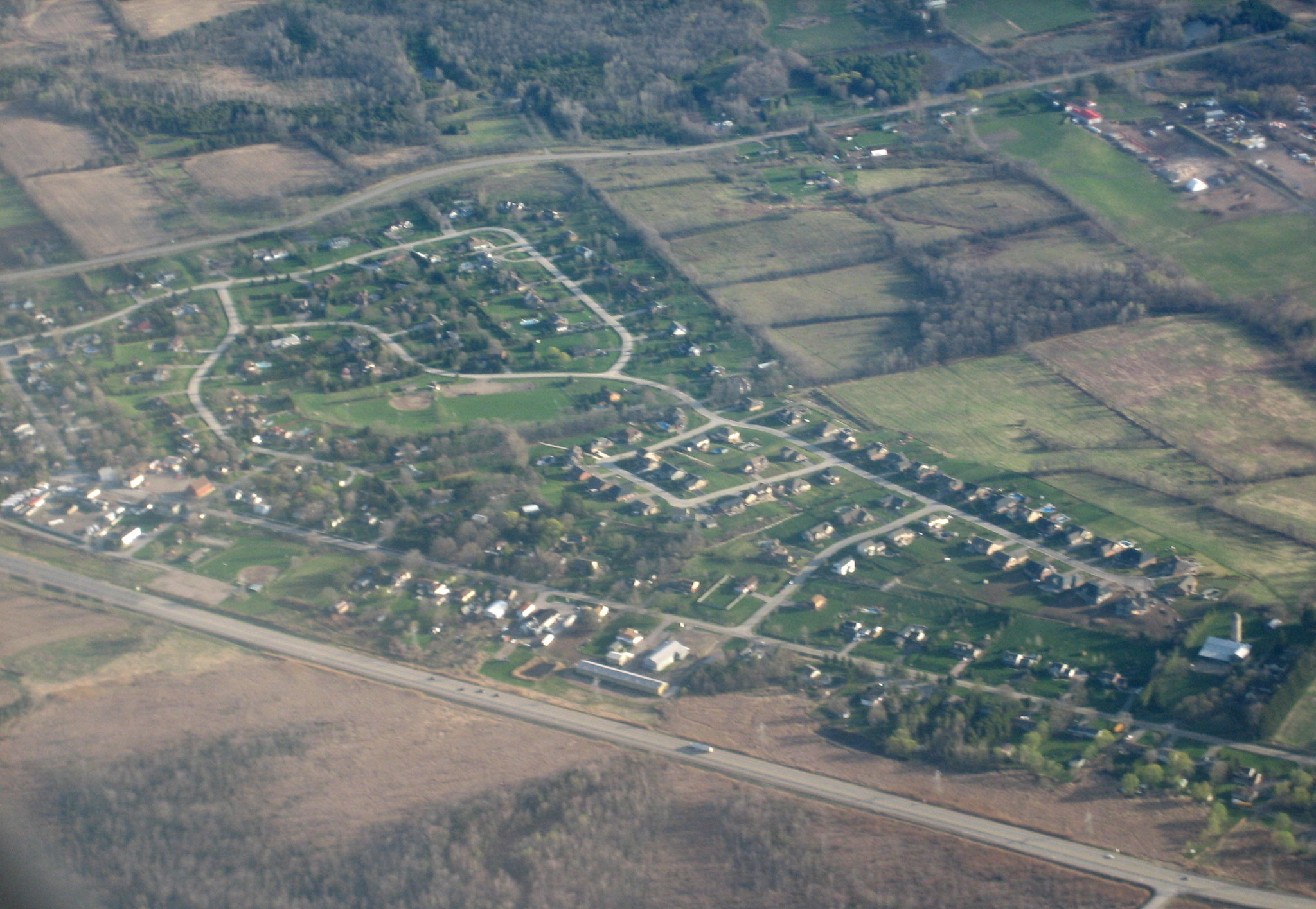 Freelton, Ontario seen from the air on approach to Pearson